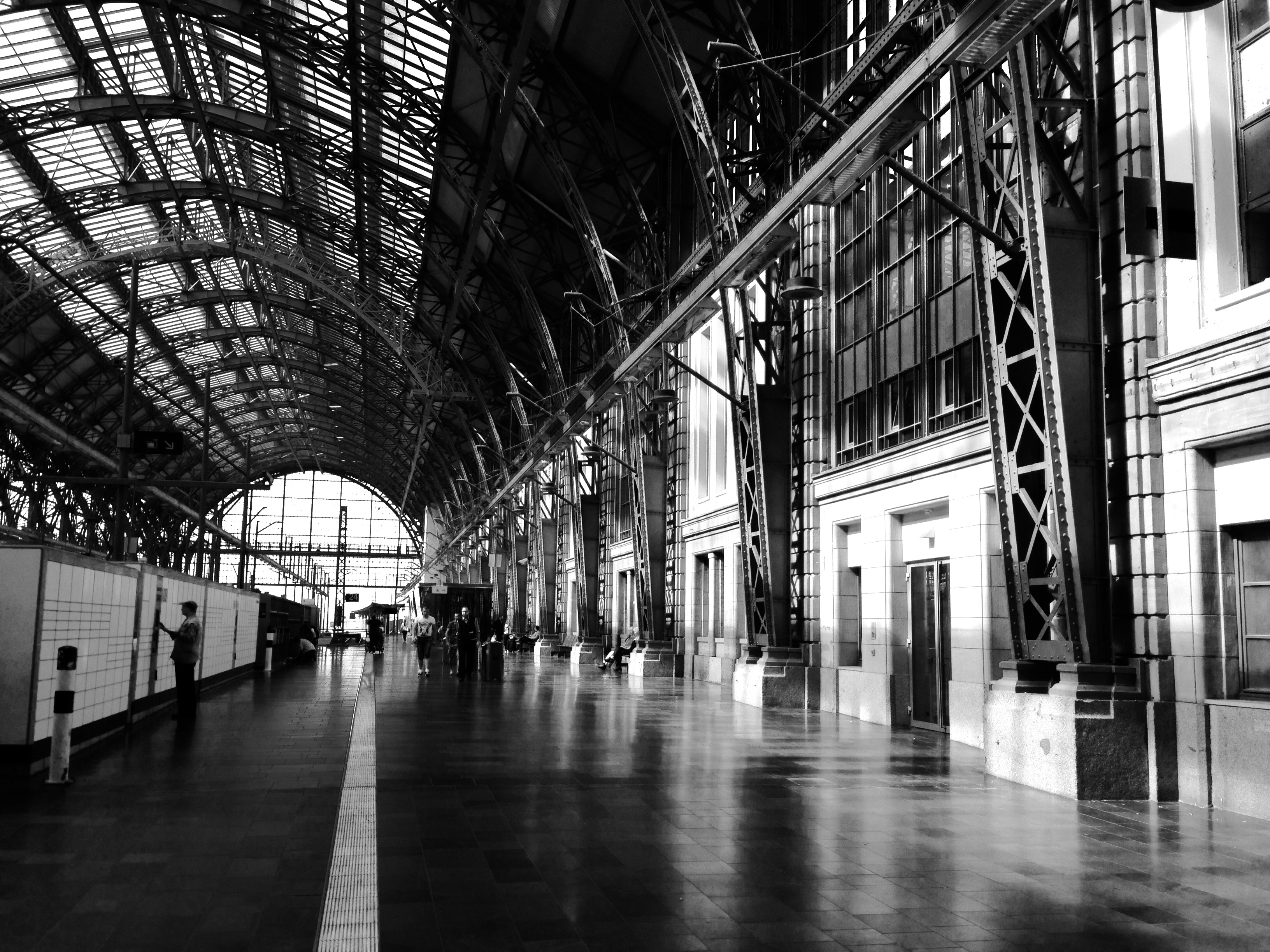 Black-and-white Frankfurt central station 2014